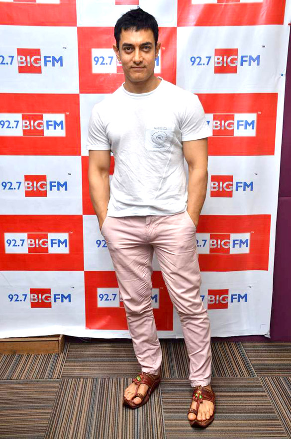 Aamir Khan at 92.7 BIG FM to promote Satyamev Jayate